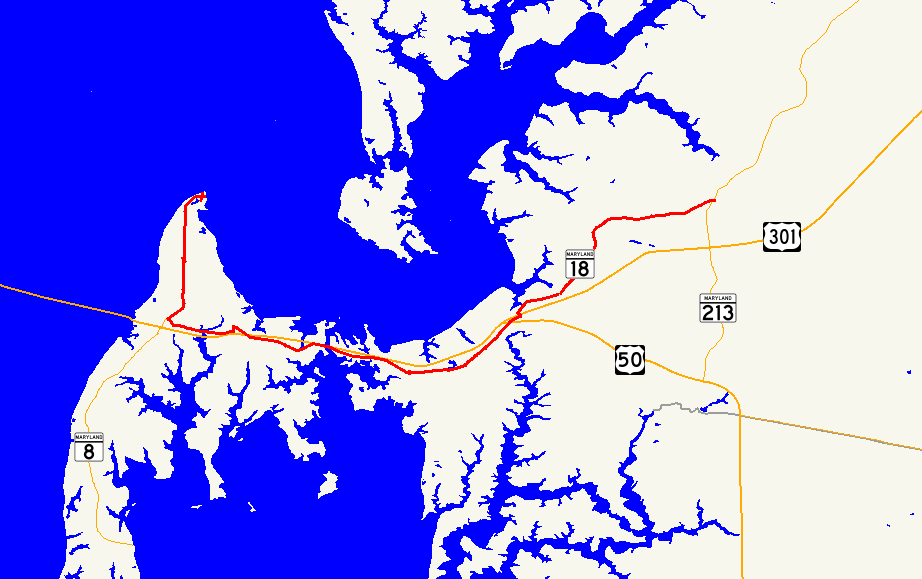 Map of Maryland Route 18